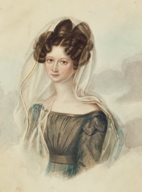 The Middleton Watercolor Album consists of a collection of 45 watercolor portraits bound in leather covers with neo-gothic embossing and a gilt bronze clasp in the same style. The album relates to the Middleton family of South Carolina, from which it descended until Hillwood purchased it in 2004. Williams Middleton—who was secretary to his father, Henry Middleton, the American minister to St. Petersburg from 1820 to 1830—assembled this album. The artist of many of the watercolors, most of which are unsigned, is likely Middleton's sister, Maria Henrietta, who studied painting during her years in St. Petersburg with her governess, Madame Mathes, who also painted miniatures. Two watercolors, including this portrait of the Countess Bobrinsky, are signed by the well-known Russian watercolorist Petr Sokolov. The portraits are of Russians and people in the foreign community who were close associates of the Middleton family. Their portraits provide an extraordinary commentary on the fashion and hairstyles of the 1820s. В 1829 году Константин Владимирович Чевкин вступил в брак с фрейлиною графинею Екатериною Фоминичною Томатис (не позже 1812–1879).